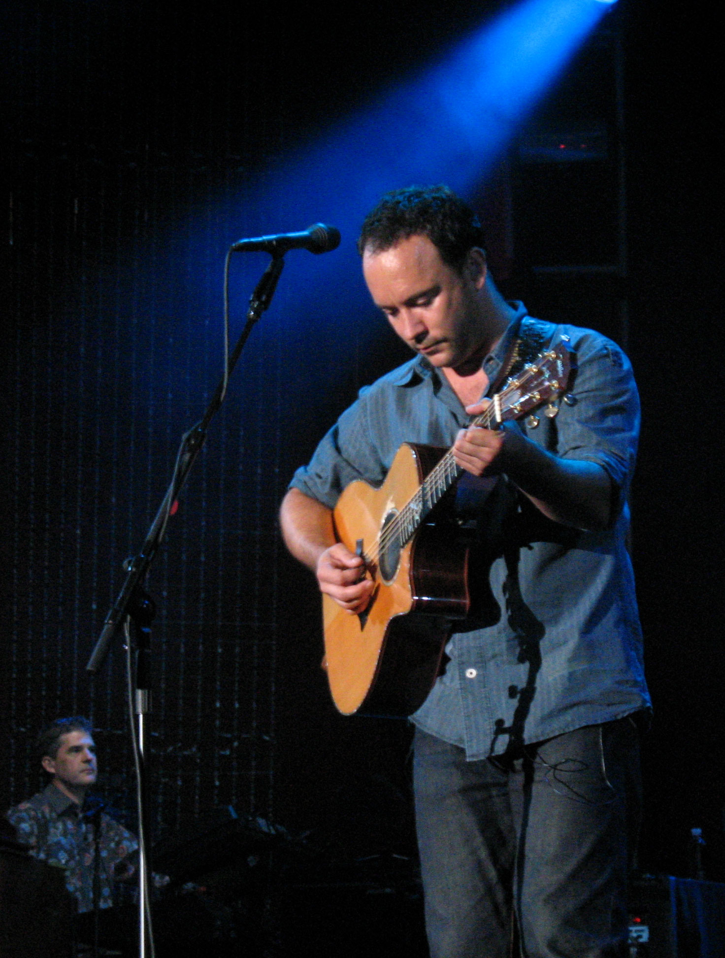 Dave Matthews Concert for Virginia Tech 9/6/07